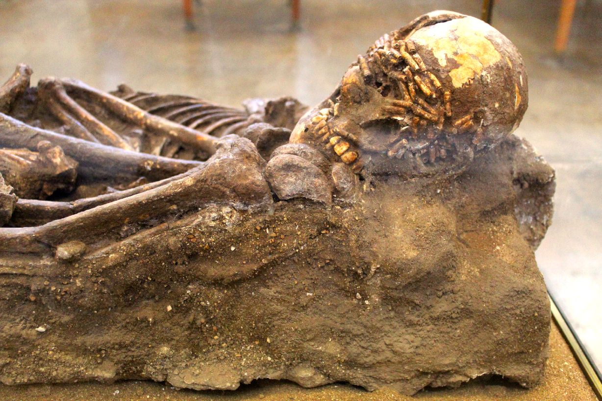 Human skeleton, with dentalium shells draped around skull